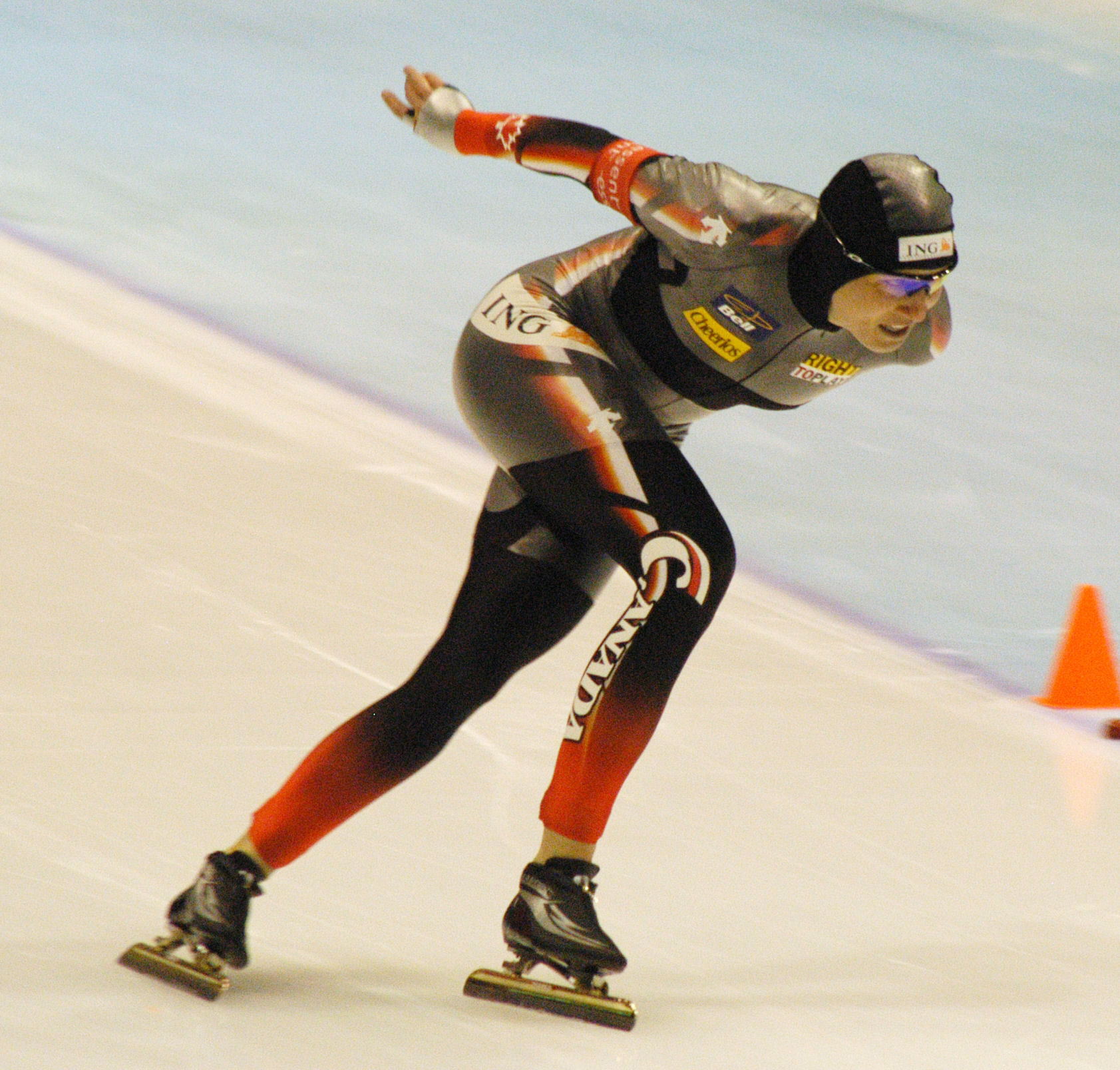 Kristina Groves (CAN) in action at a world cup speedskating in Heerenveen, the Netherlands.